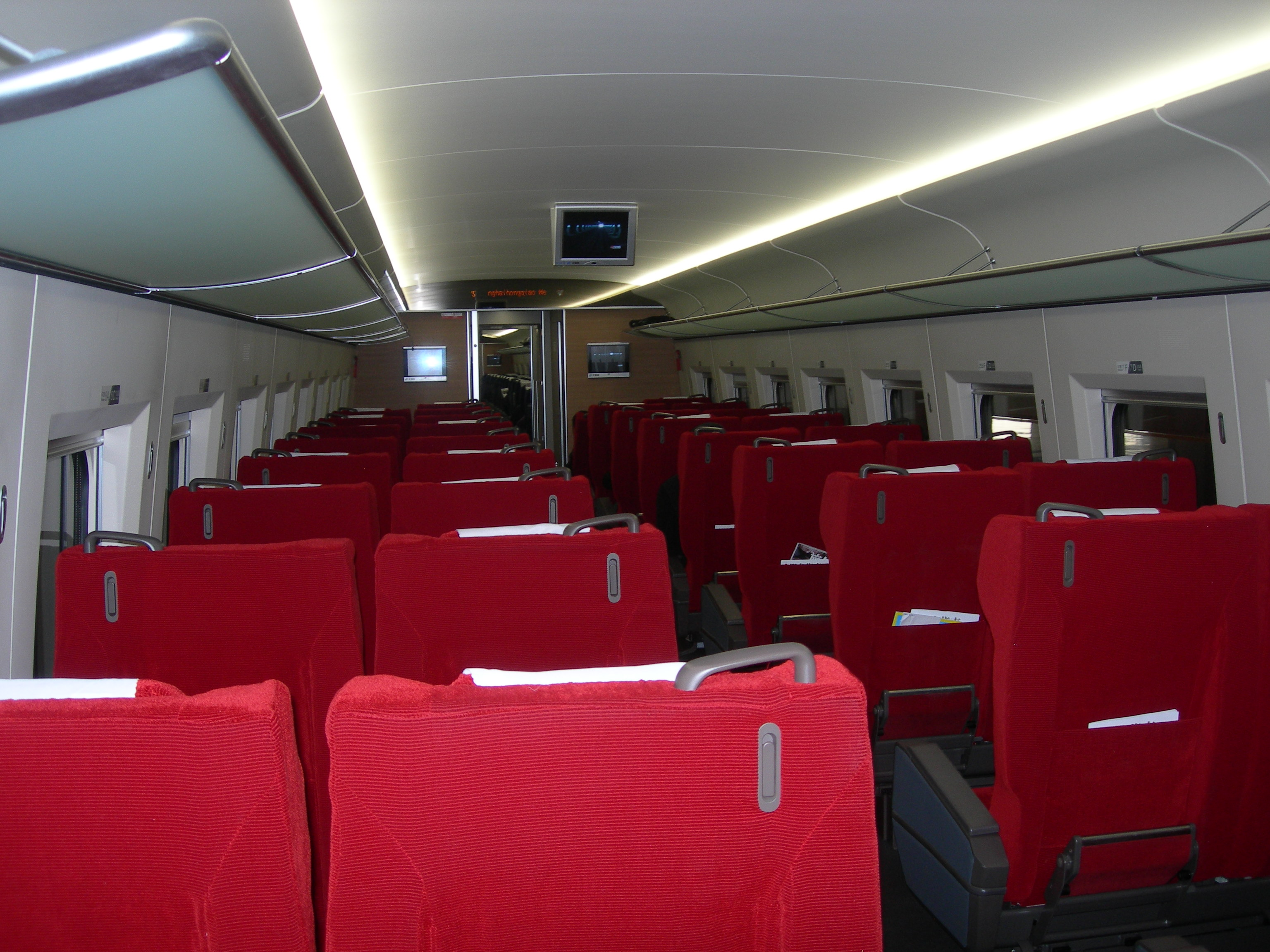 First class seating typically found on trains of the Shanghai-Hangzhou Dedicated Passenger Railway of China Railways Highspeed. Behind you can see the carriage with second-class seats.